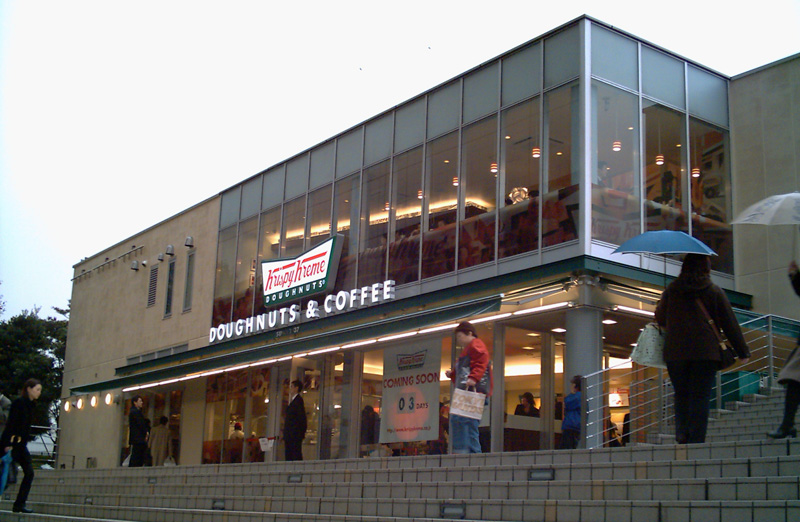 Krispy_Kreme_Doughnuts Japan photography day, 2006.12.13. photography person kici